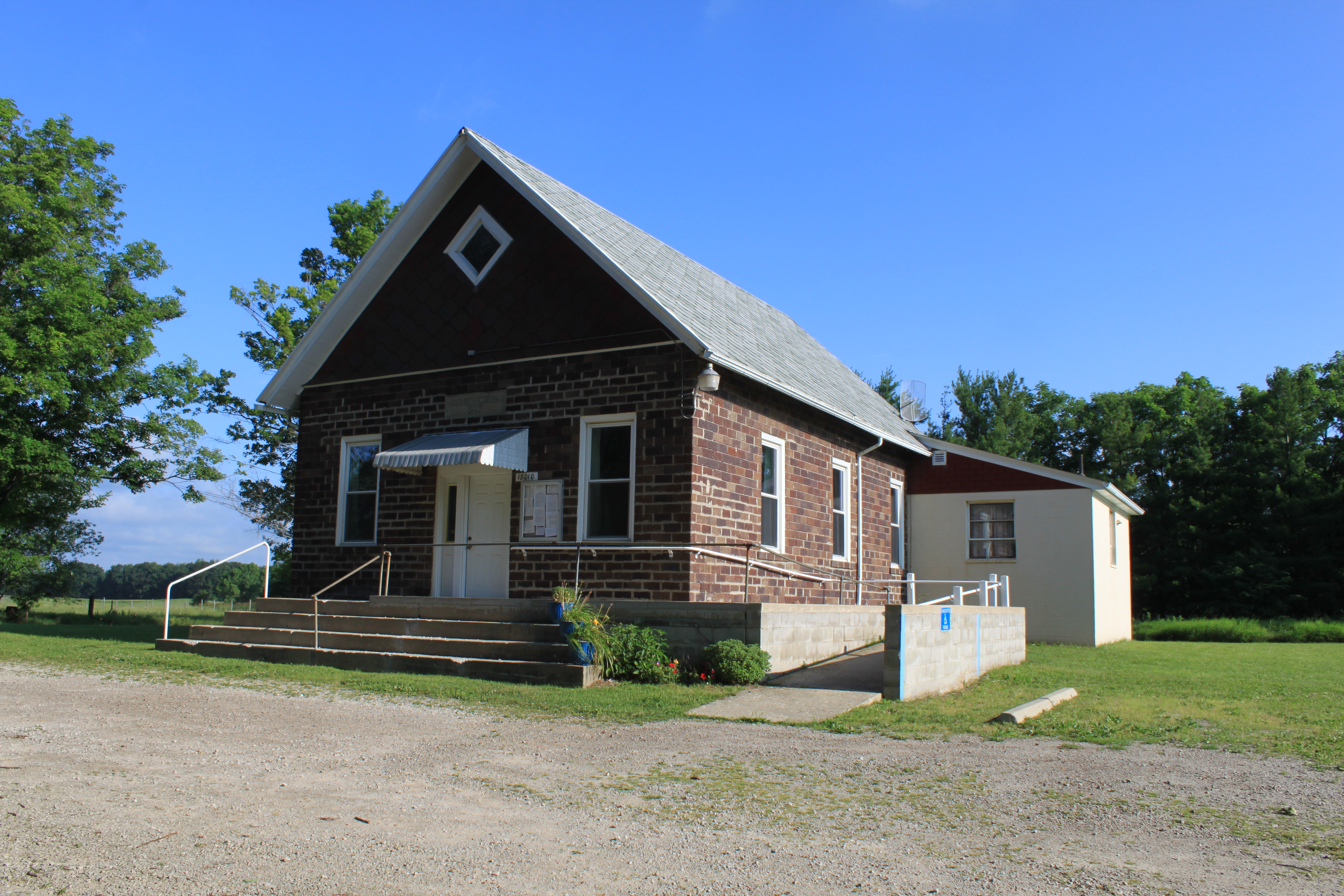 Sharon Township Michigan Townhall, Pleasant Lake & Sylvan Roads